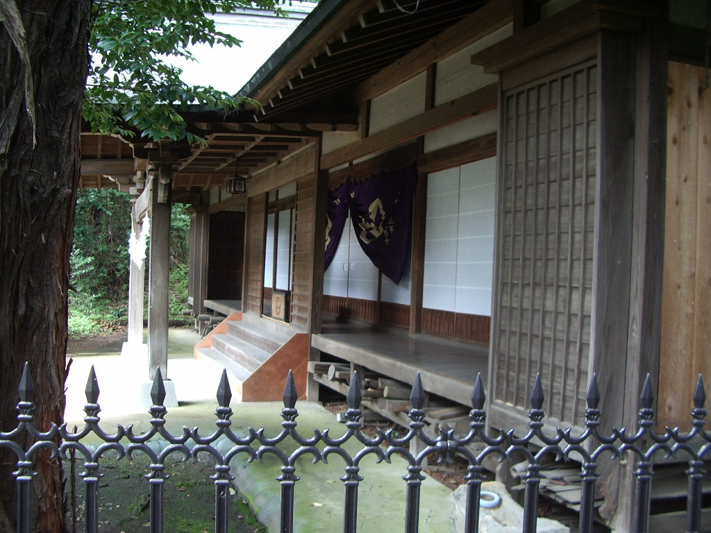 The headquarters of Hukan Kyokai in Momura, Inagi-shi, Tokyo, Japan. Hukan Kyokai is a folk religion that developed in Meiji Era through early Showa Era (late 19th - early 20th century).